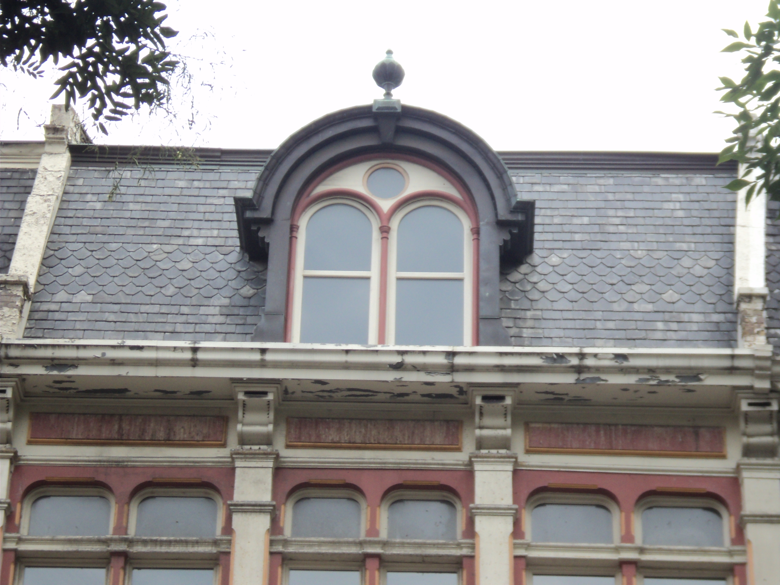 Detail of the roof line with a window in it. 47 Front St. in Toronto.